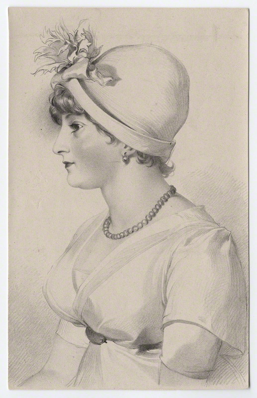 Lithograph of Priscilla Kemble